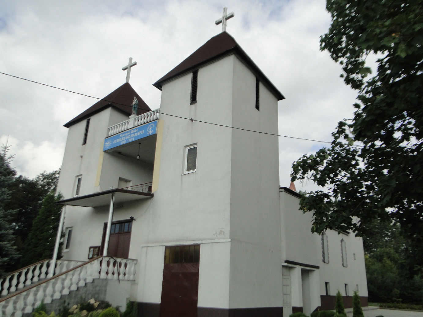 Polish Catholic Church in Strzyzowice